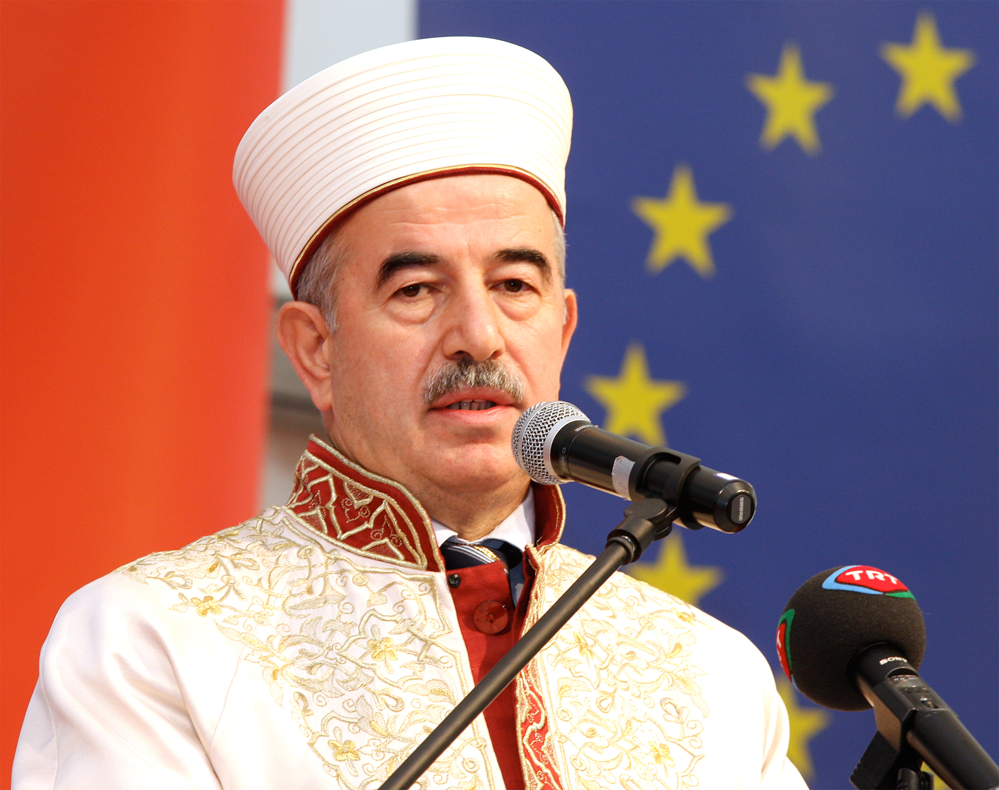 Ali Bardakoğlu, (2009) president of Diyanet İşleri Başkanlığı (Presidency of Religious Affairs) and as such the highest Islamic authority in Turkey.